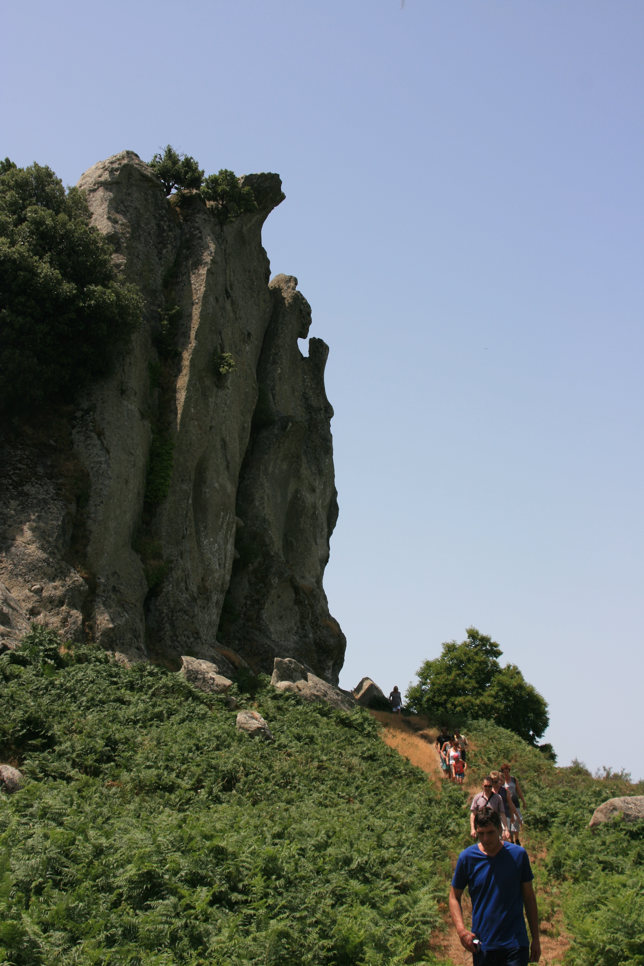 These are not megaliths but natural rock formations.